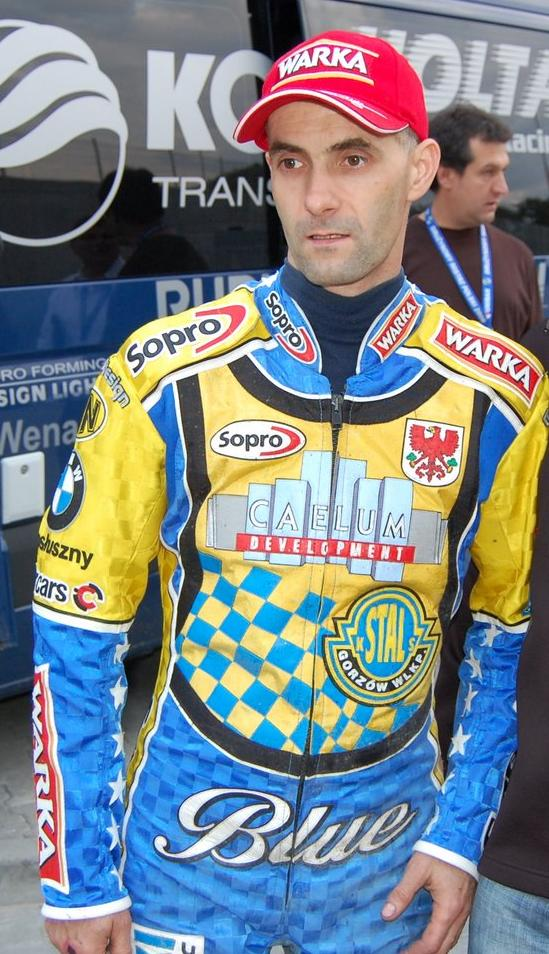 Tomasz Gollob, Speedway World Champion 2010